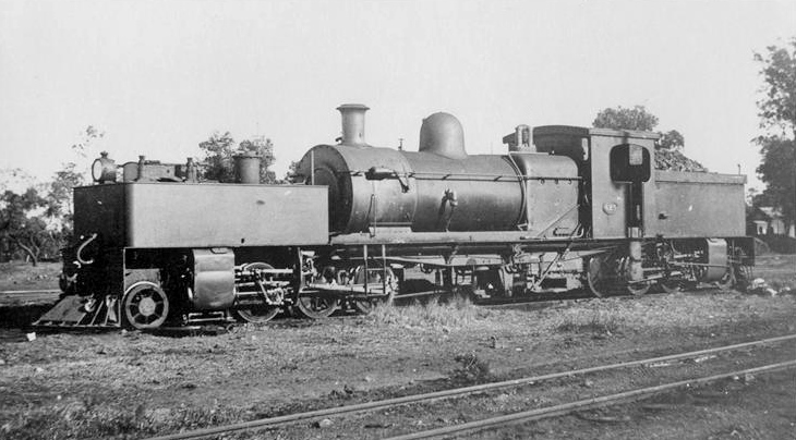 A three quarter view of WAGR Ms class Garratt locomotive no. 425, at Midland Junction.